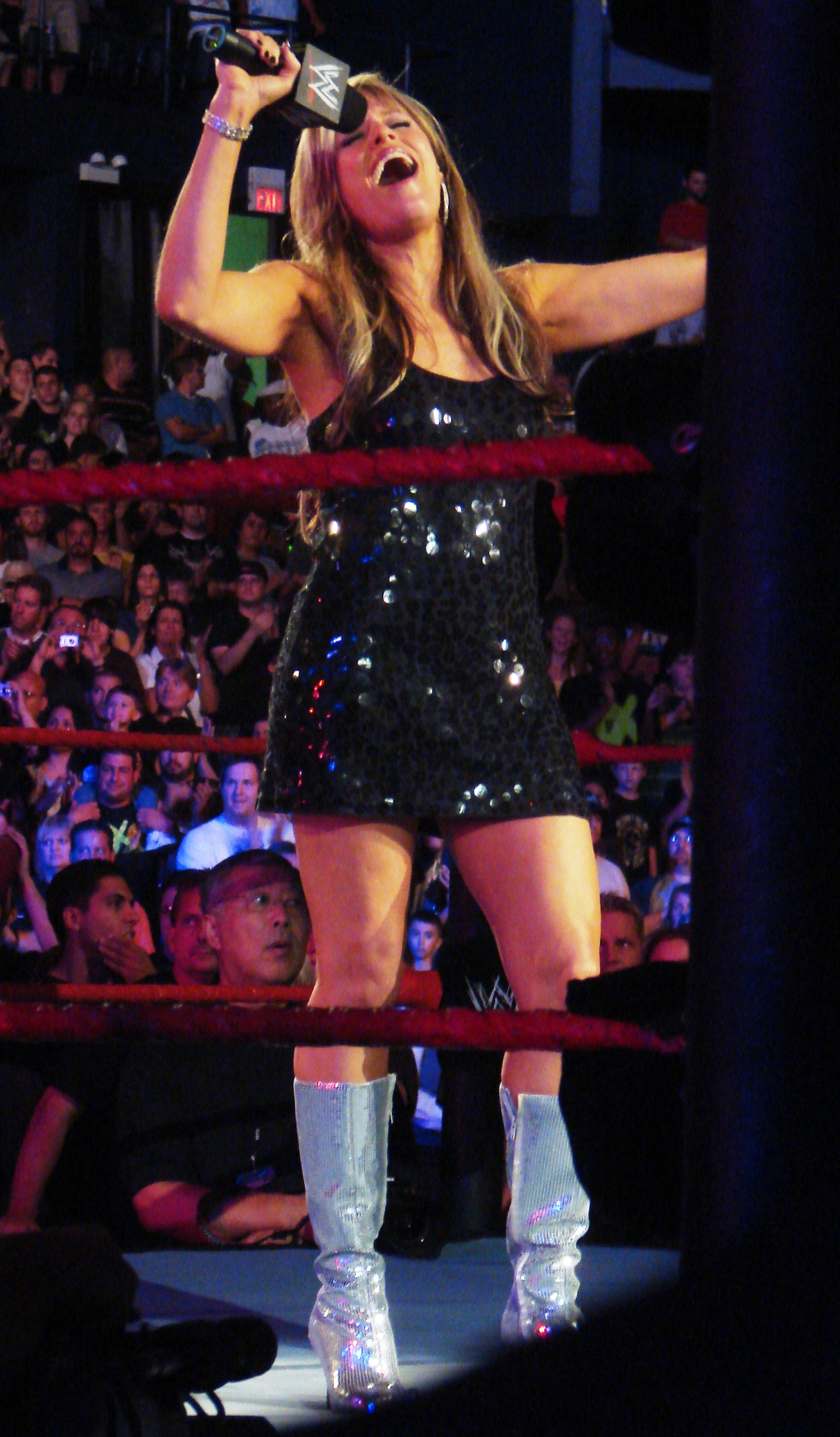 Lillian Garcia singing the National Anthem at WWE No Mercy 2007. Allstate Arena, Rosemont, Illinois, October 7, 2007. Taken by me, rotated, cropped, and brightened.